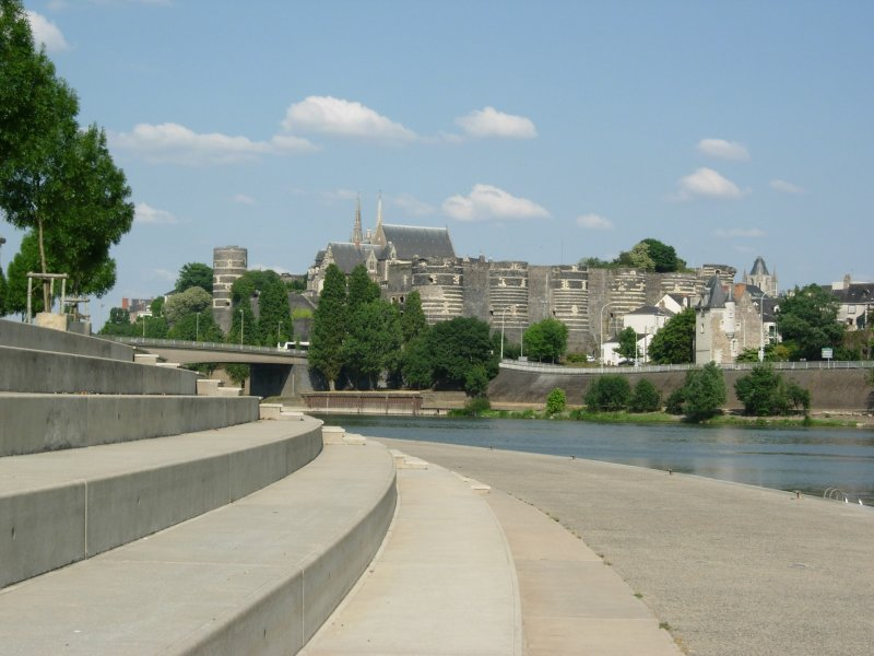 View of the castle of Angers and Maine river, from Éric Tabarly quay. Angers, Maine-et-Loire, France.